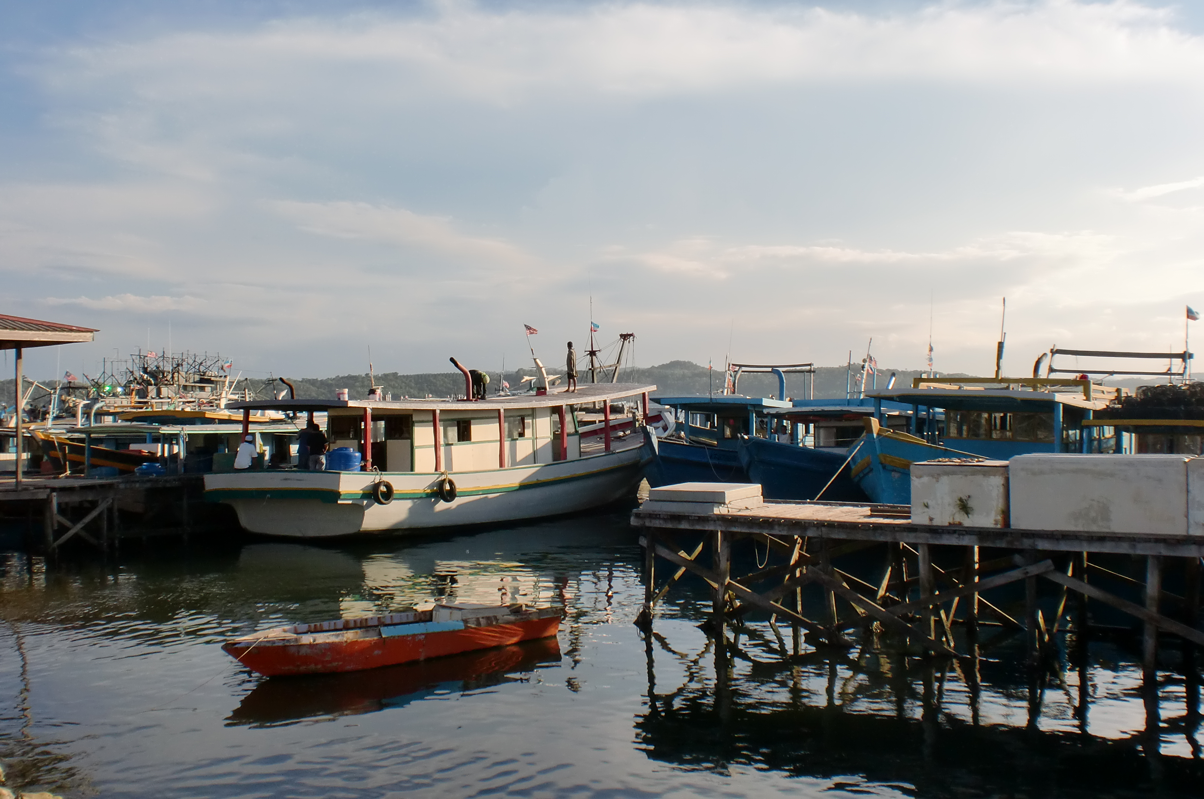 Boats docked at the harbour in Kudat, Sabah, Malaysia.